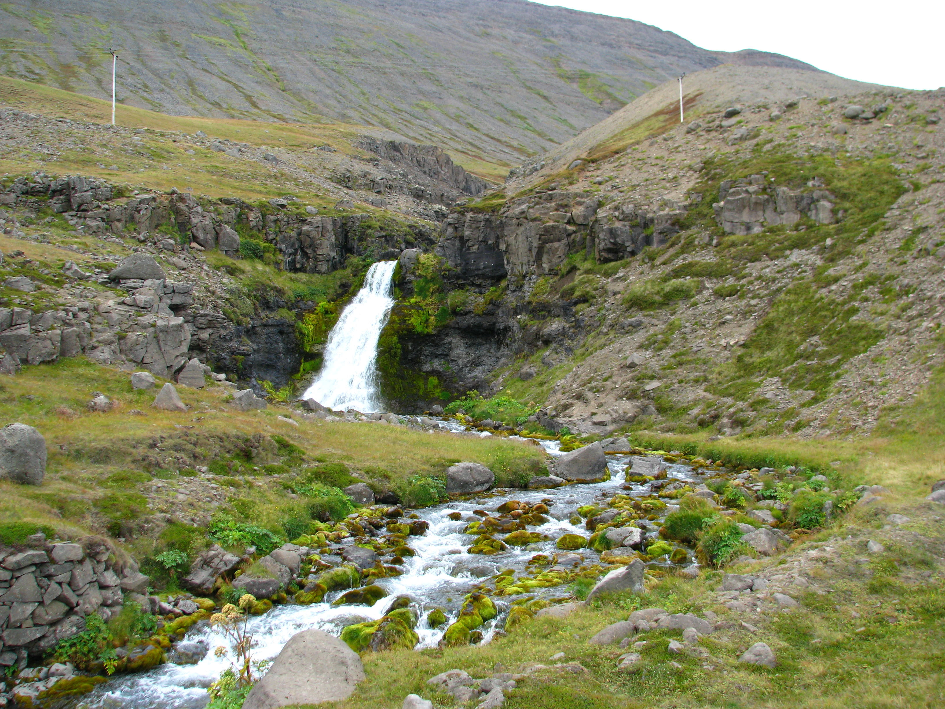 Gljúfurárfoss, a waterfall of Iceland.